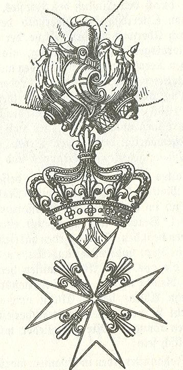 Order of Malta. Knights cross